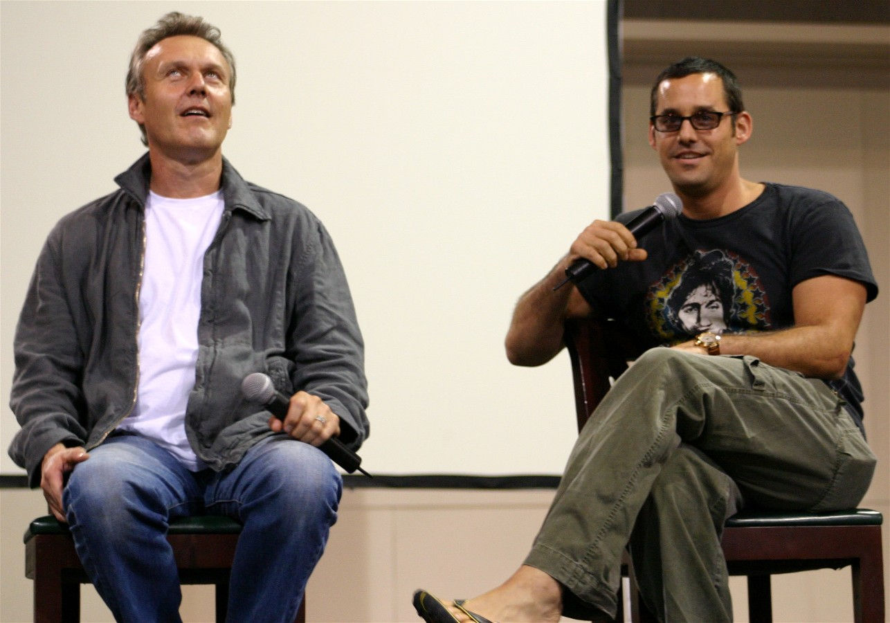 English actor Anthony Stewart Head and american actor Nicholas Brendon at the Oakland Super SlayerCon.